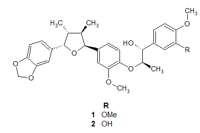 Structural molecule